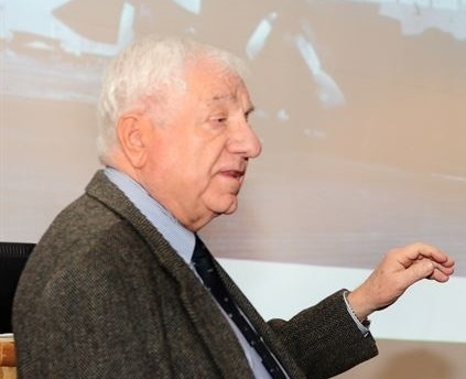 Colonel (Retired) Alan L. Gropman, Industrial College of the Air Force and National Defense University professor, speaking at Little Rock Air Force Base on 4 March 2010 about his experiences as a C-130 navigator during the Vietnam War.